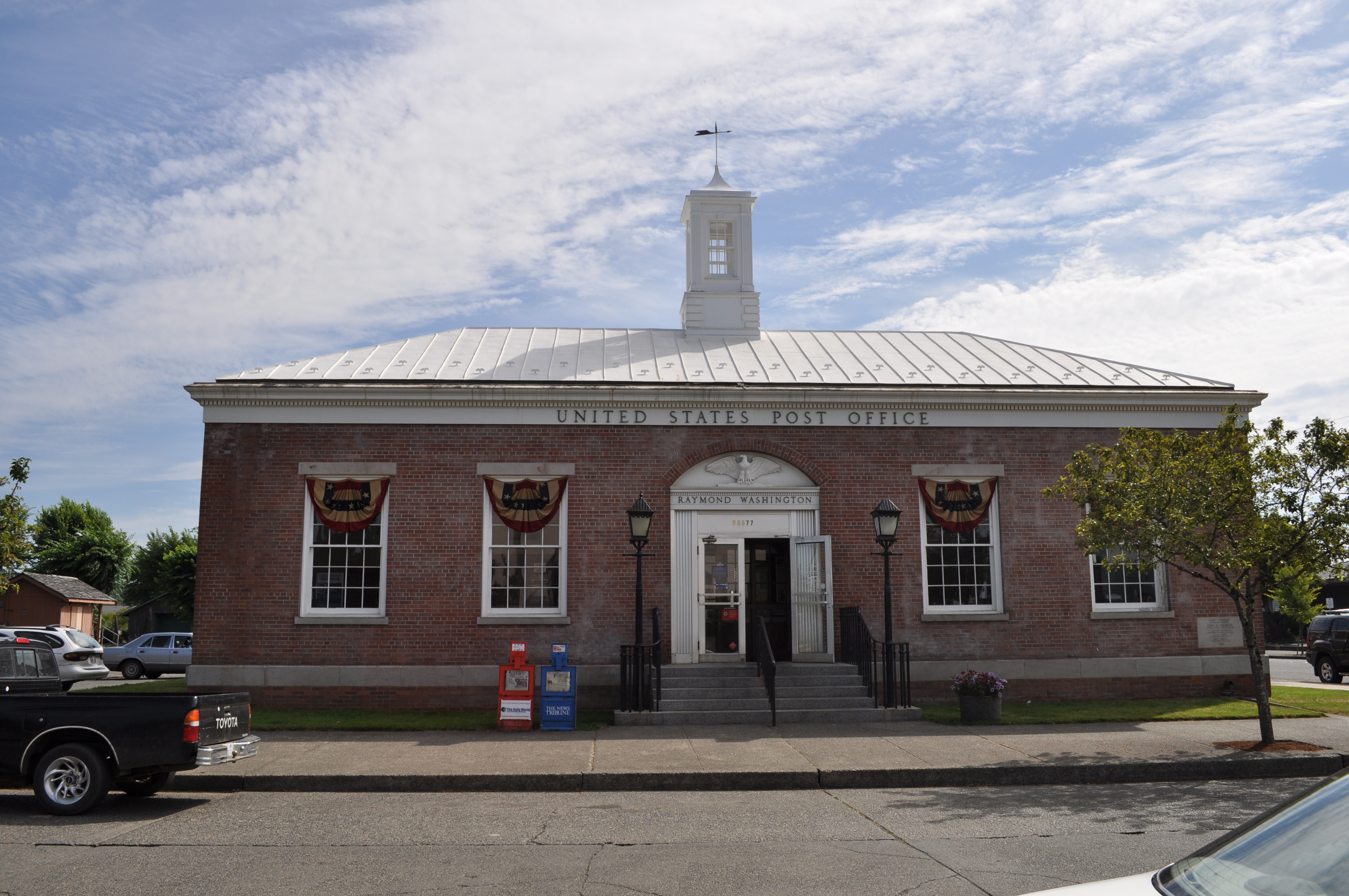 Post office, Raymond, Washington, USA.